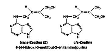 CITOQUININA